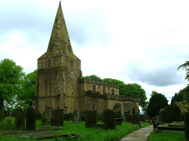 Church of St Peter and St Paul, Old Brampton.